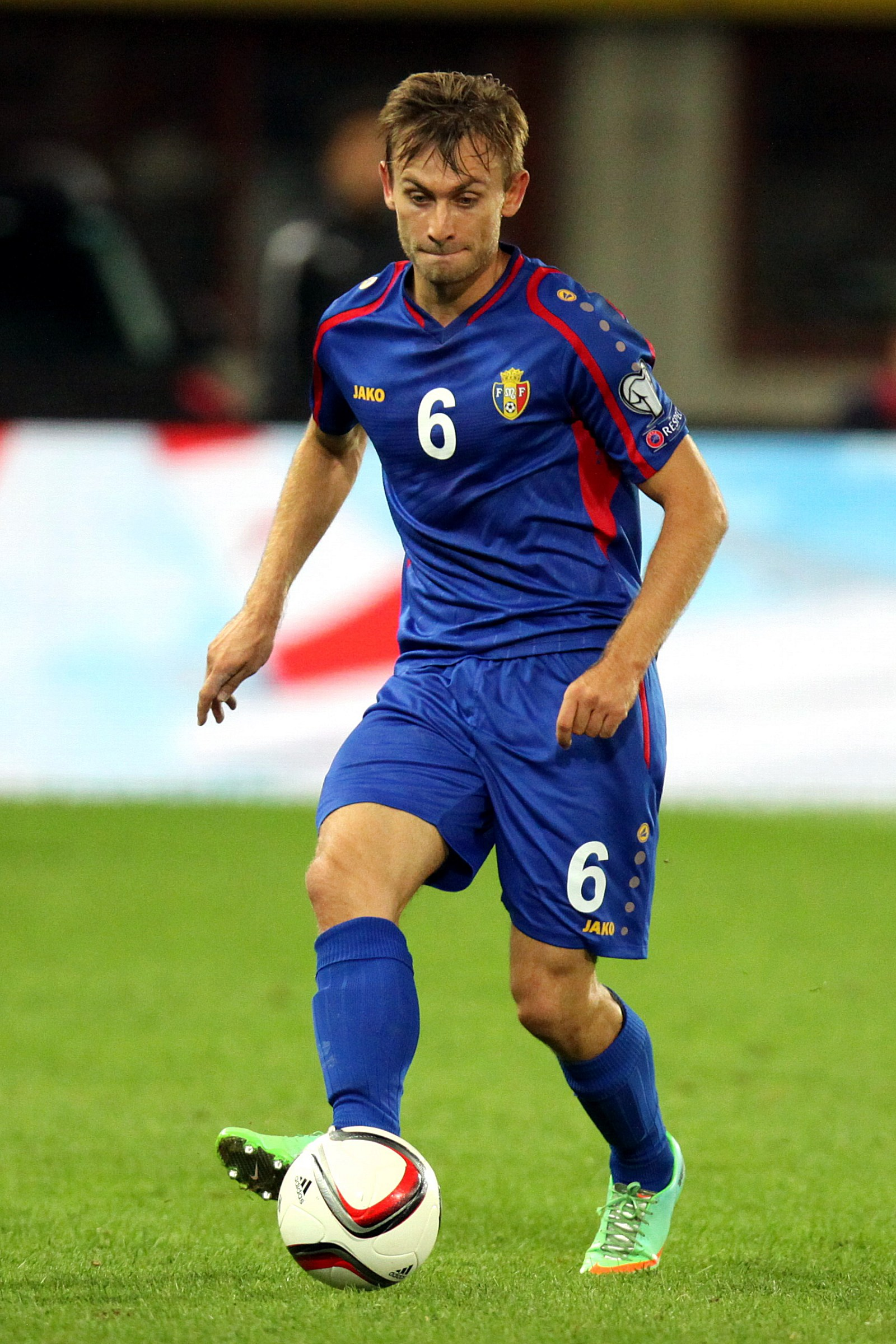 UEFA Euro 2016 qualifying, Group G – Austria national football team (red shirts) vs. Moldova national football team (blue shirts) on 2015-09-05 in Ernst-Happel-Stadion, Vienna: The photo shows Ion Jardan